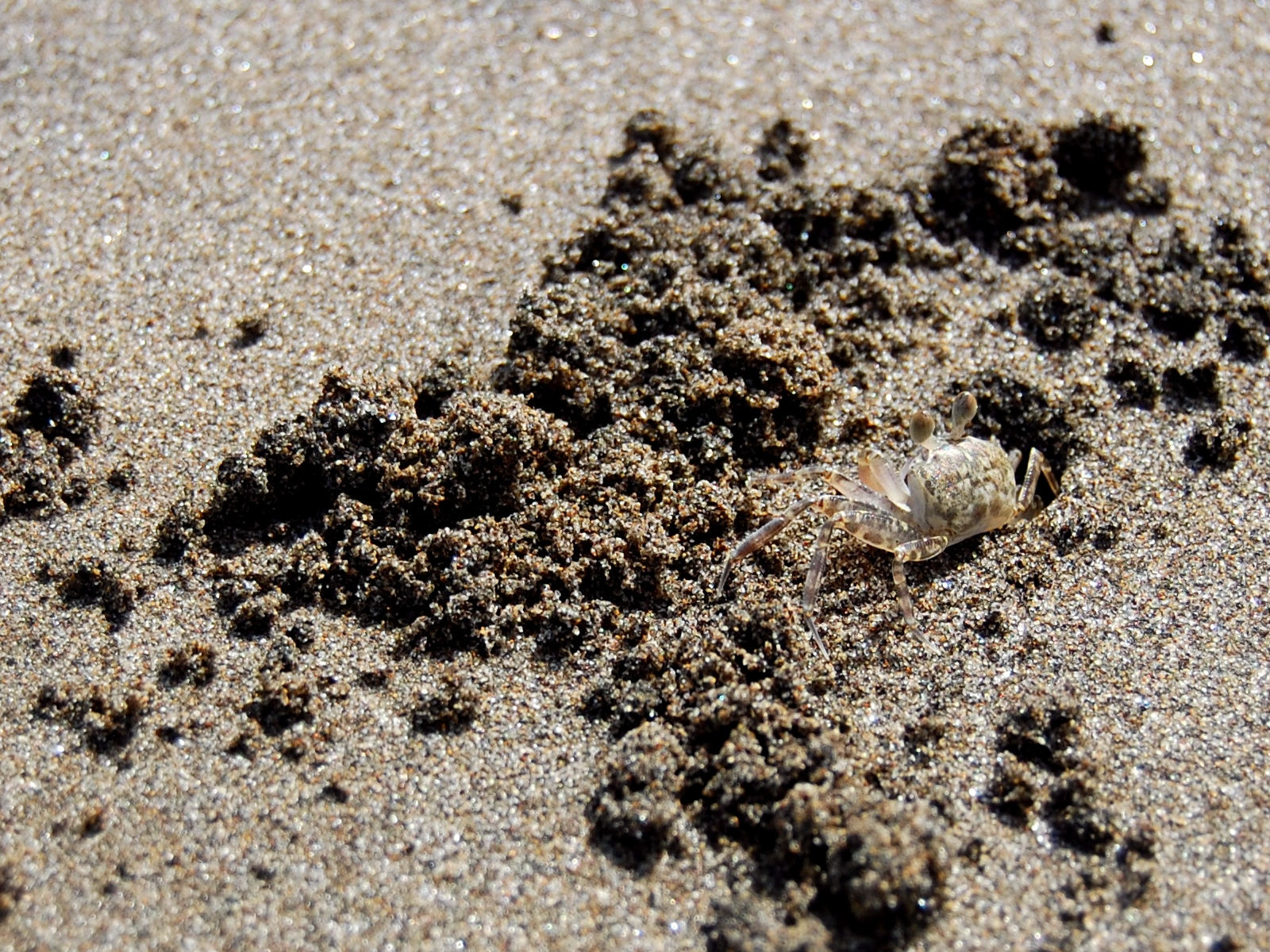 Kuhl's ghost crab, Ocypode kuhlii. Palabuhanratu, West Java, Indonesia.